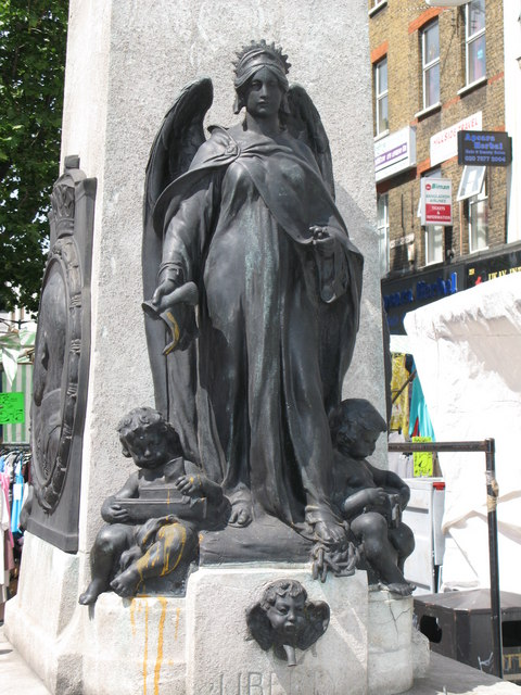 Statue on the base of the memorial to Edward VII, Whitechapel Road, E1. See 891860.